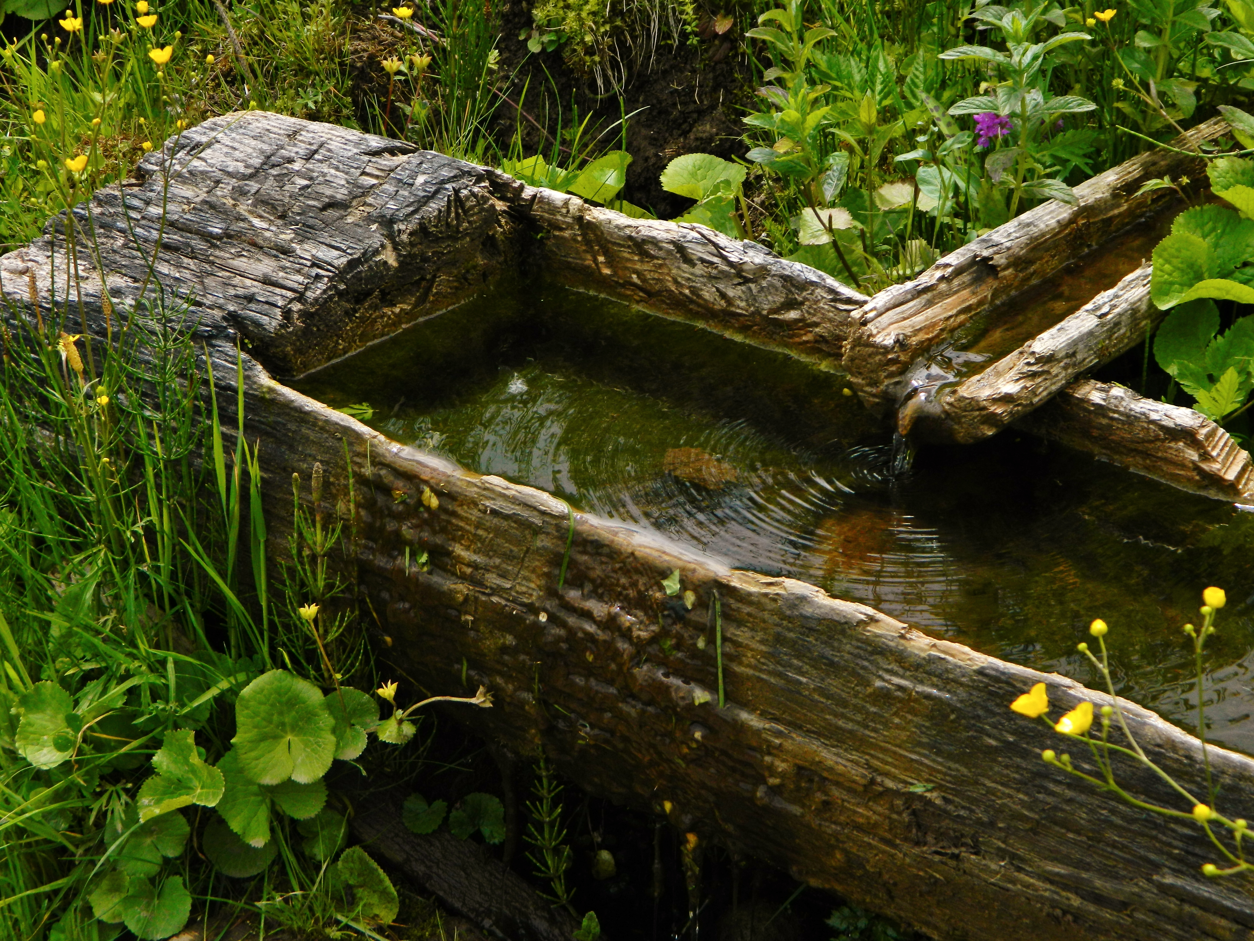 Wooden trough for watering cattle in the hamlet of Ilci village, Verkhovyna raion Ivano-Frankivsk Oblast